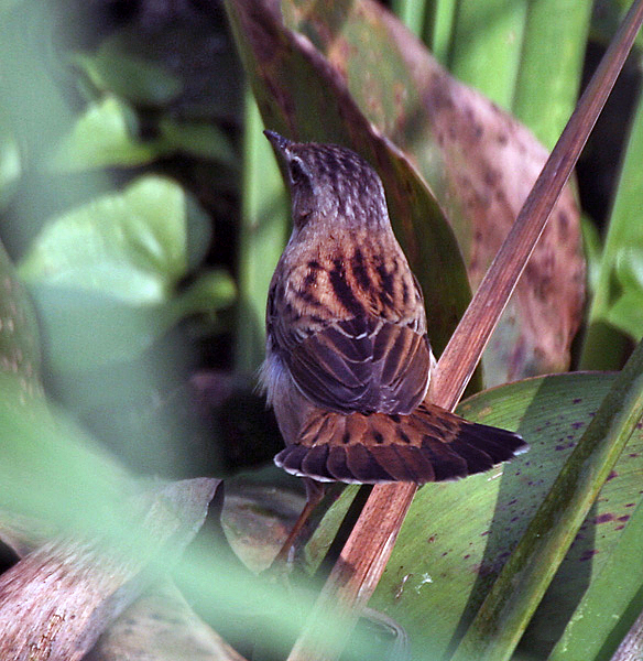 Pallas's Grasshopper Warbler [Rusty-rumped Warbler] Locustella certhiola in Kolkata, West Bengal, India.